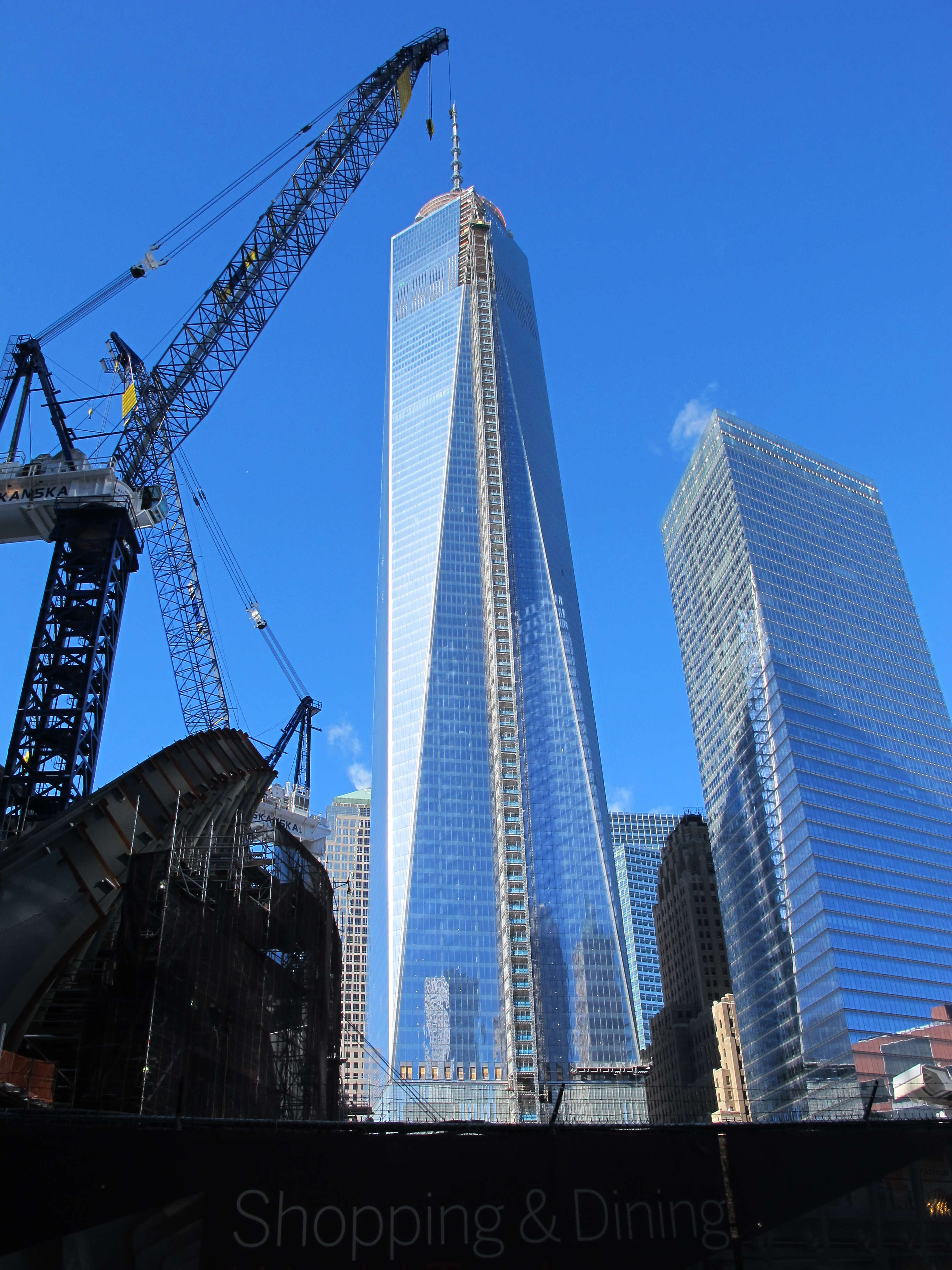 One World Trade Center under construction in New York City